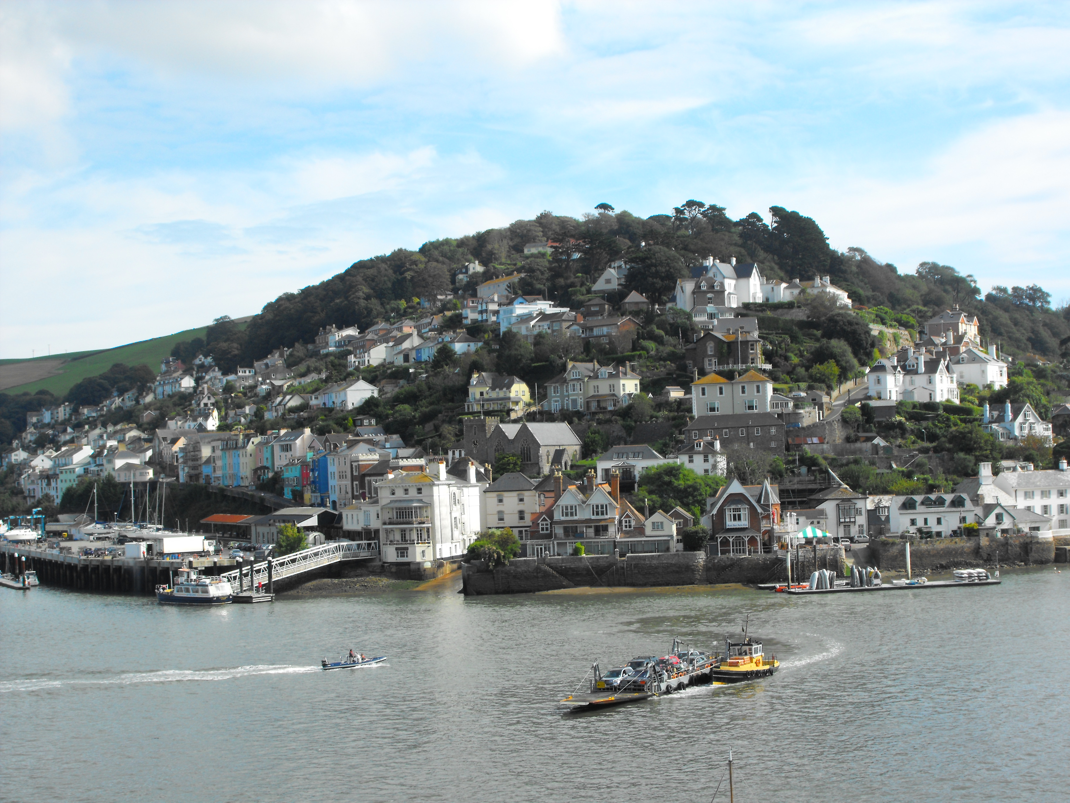 Kingswear Hill as seen from dartmouth